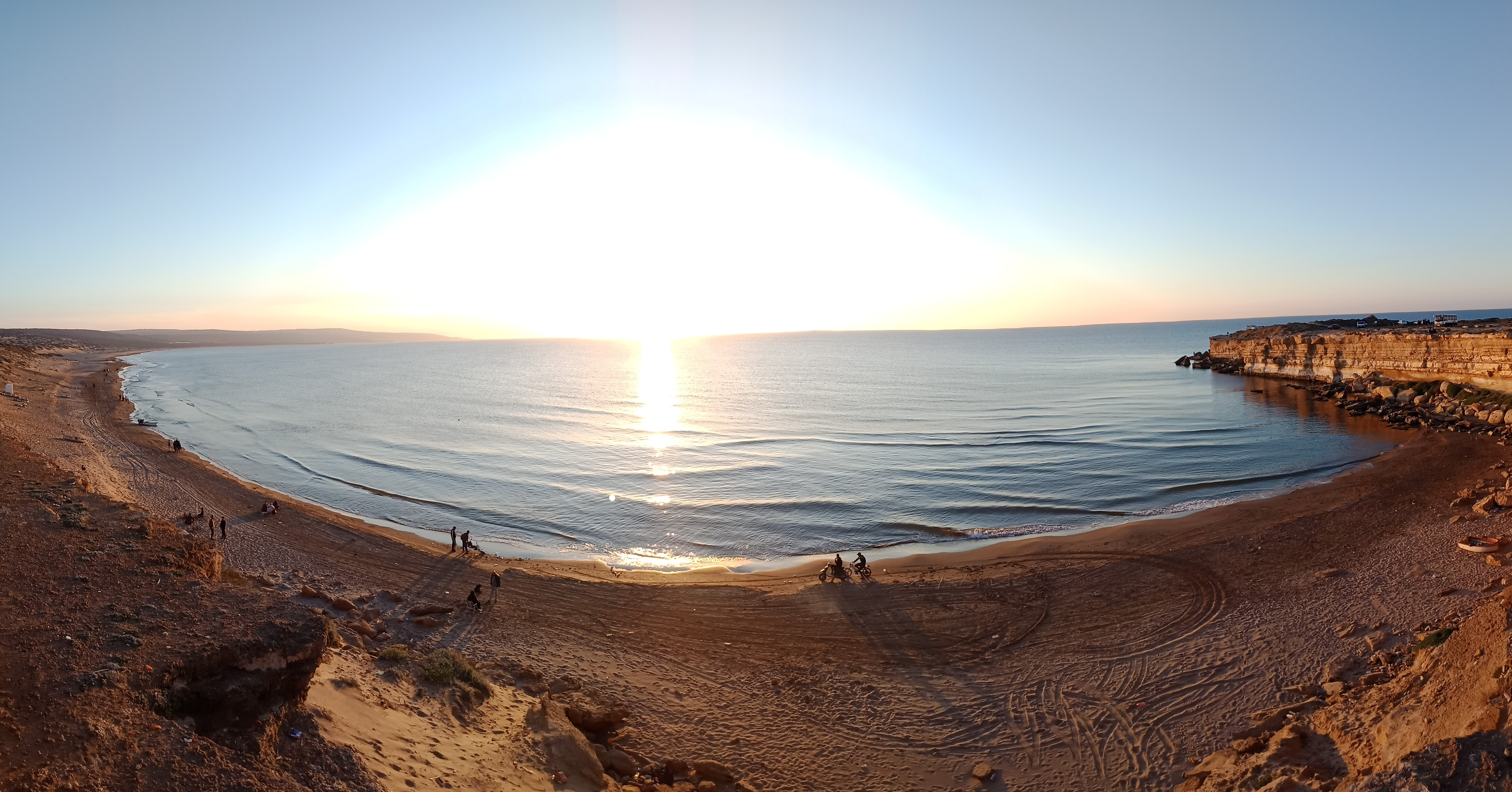 A beach known as the legend of the Yellow Café in the areas of Mostaghanem is one of the purest and most beautiful beaches in Mostaghanem.